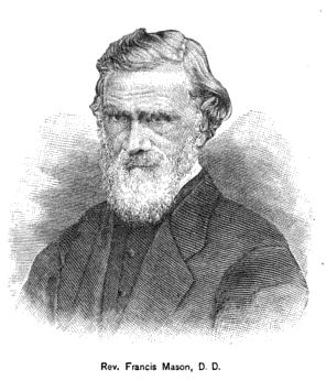 Image from: George Winfred Hervey, The story of Baptist missions in foreign lands: from the time of Carey to the present date (Chancy R. Barnes, 1884), pg. 397 This media file is in the public domain in the United States. This applies to U.S. works where the copyright has expired, often because its first publication occurred prior to January 1, 1925, and if not then due to lack of notice or renewal. See this page for further explanation. This image might not be in the public domain outside of the United States; this especially applies in the countries and areas that do not apply the rule of the shorter term for US works, such as Canada, Mainland China (not Hong Kong or Macao), Germany, Mexico, and Switzerland. The creator and year of publication are essential information and must be provided. See Wikipedia:Public domain and Wikipedia:Copyrights for more details.